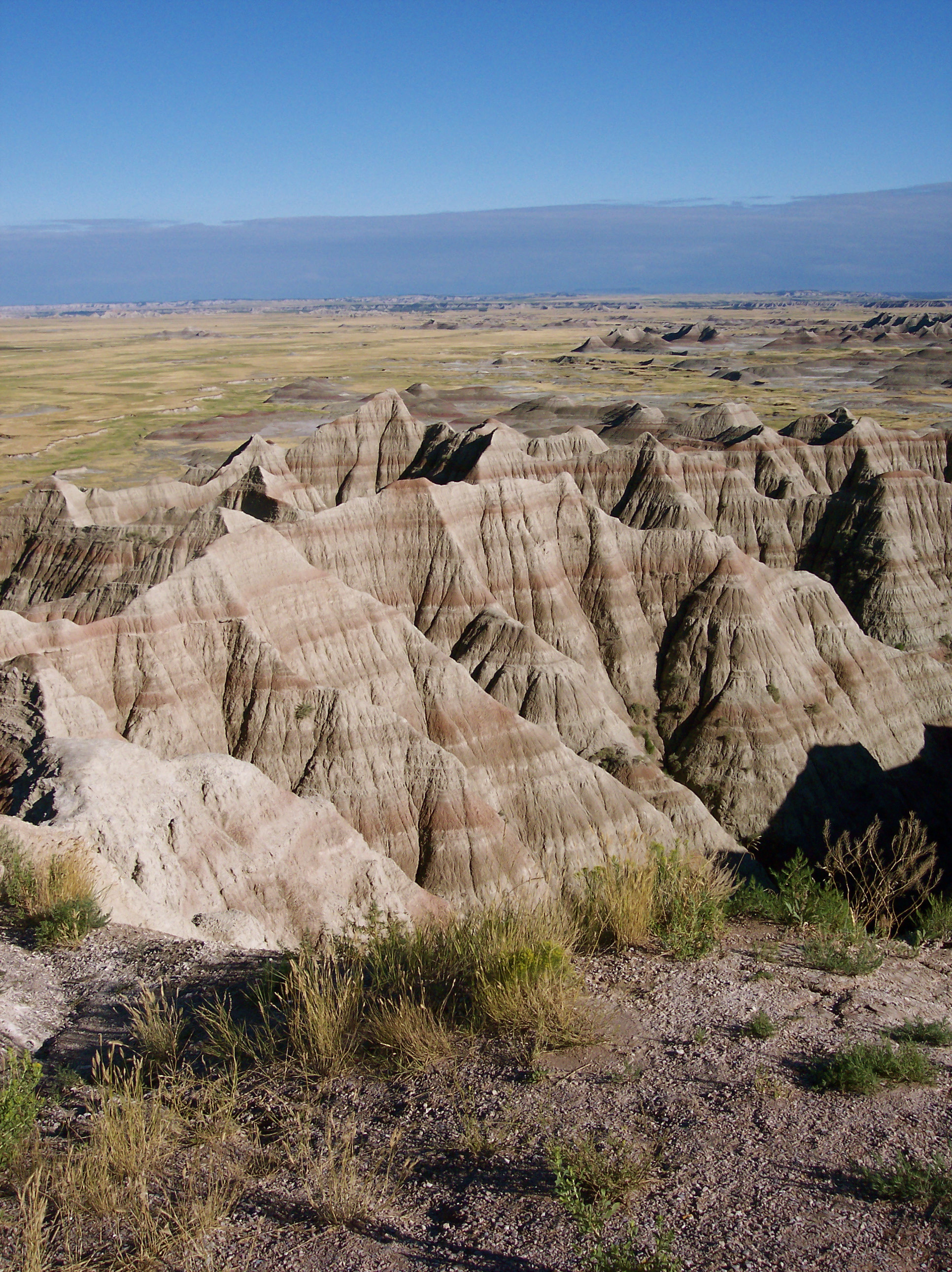 Badlands National Park.